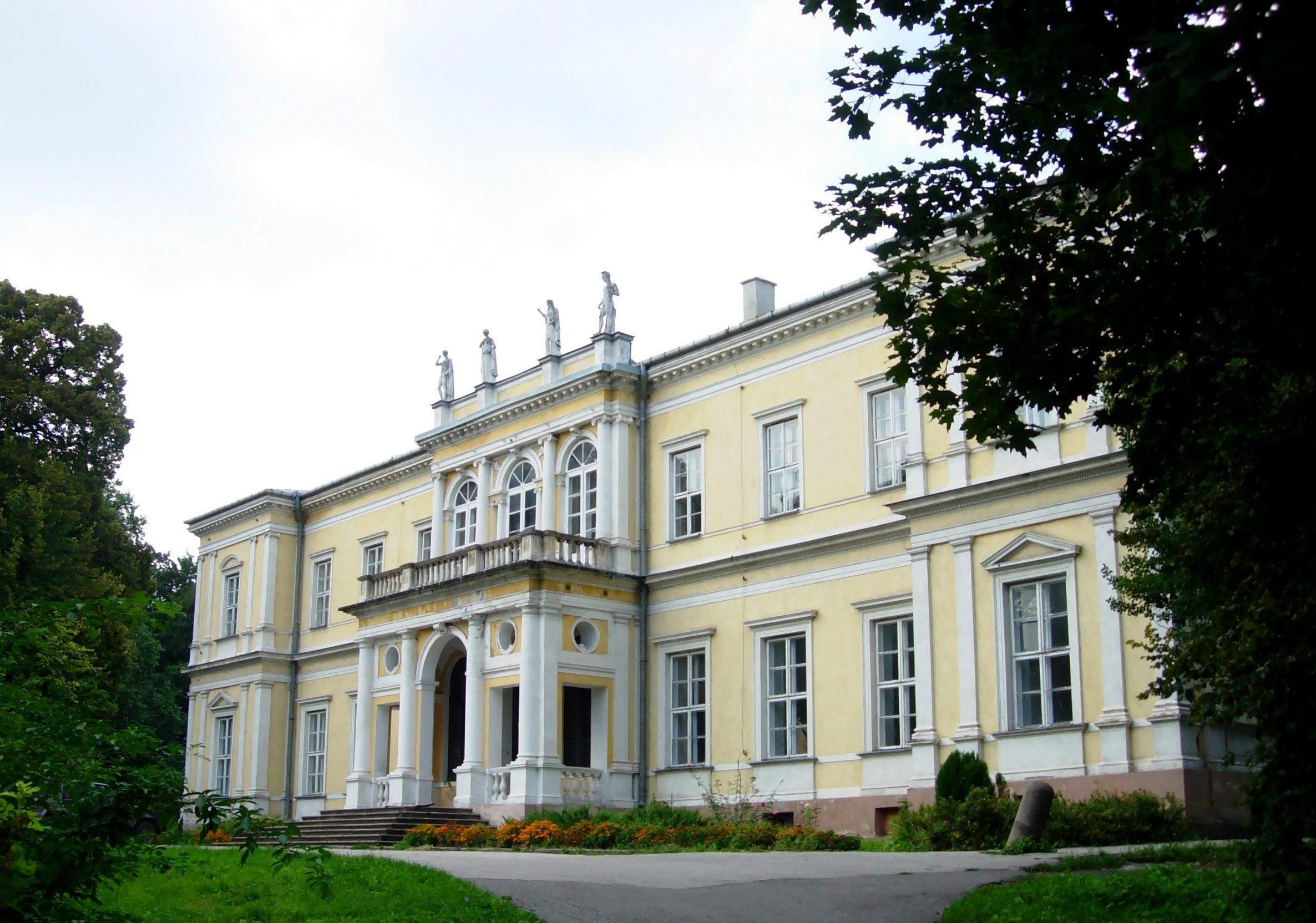 The palace of Wielopolscy in Chroberz, Poland